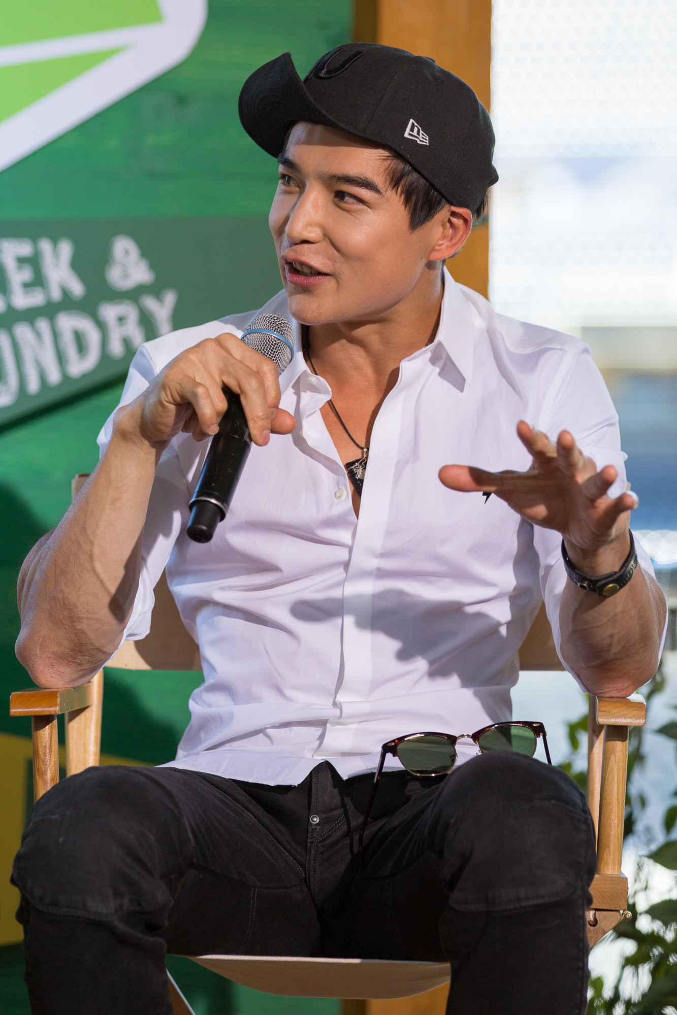 Ludi Lin at the Power Rangers movie discussion at Camp Conival offsite at Petco Park during San Diego Comic-Con 2016